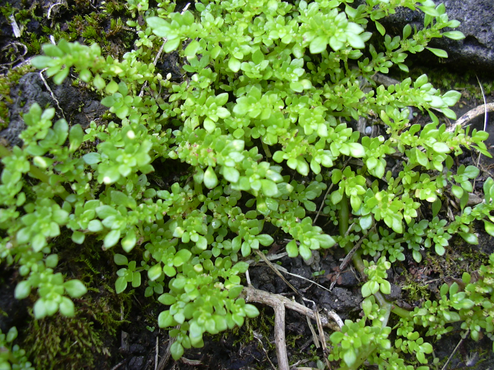 Pilea microphylla (habit). Location: Maui, Keanae Arboretum